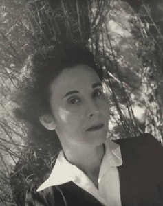 Jeanne Mandello, German-Uruguayan photographer, c. 1948